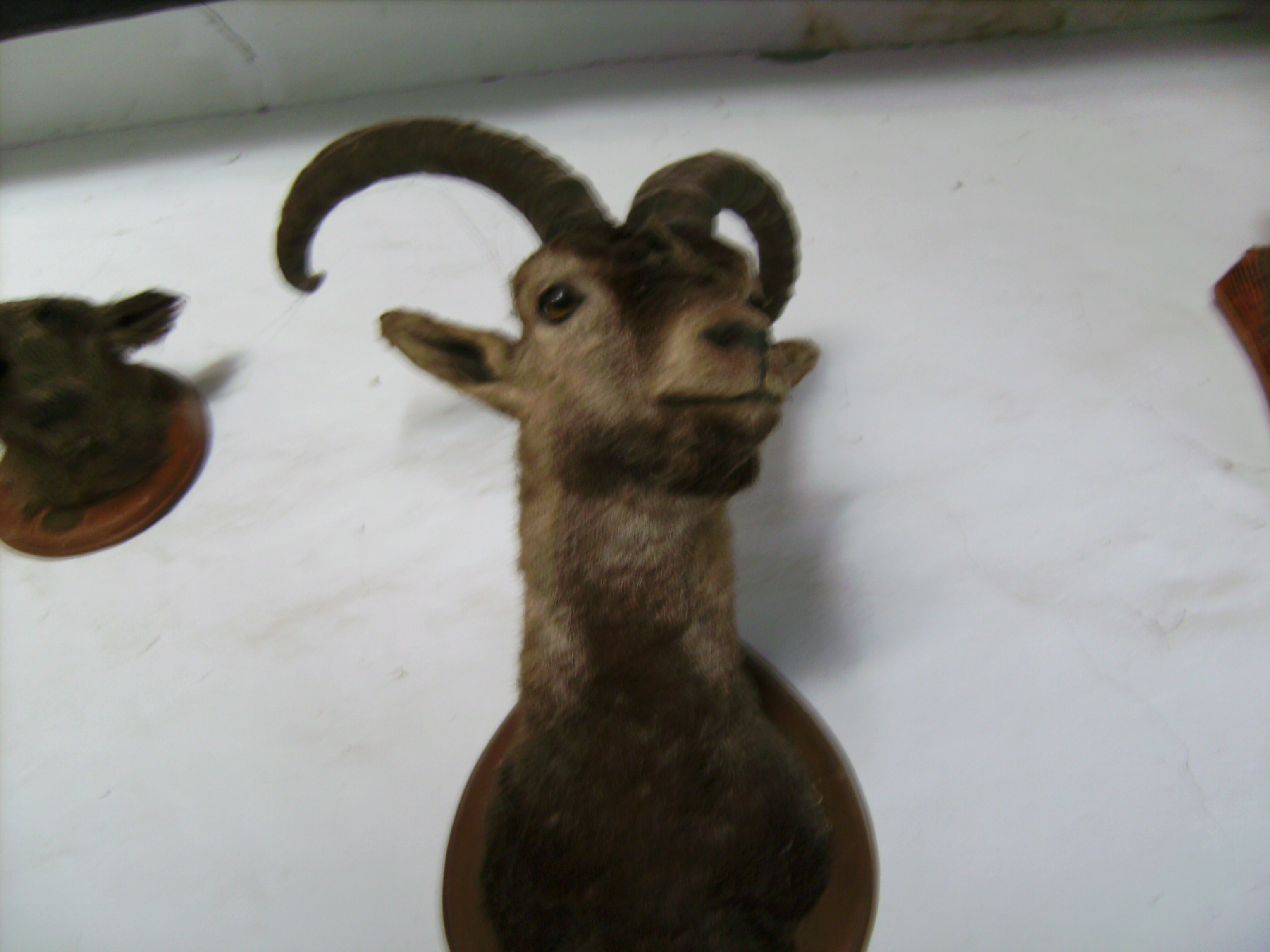 Capra pyrenaica (From Gredos, Spain)